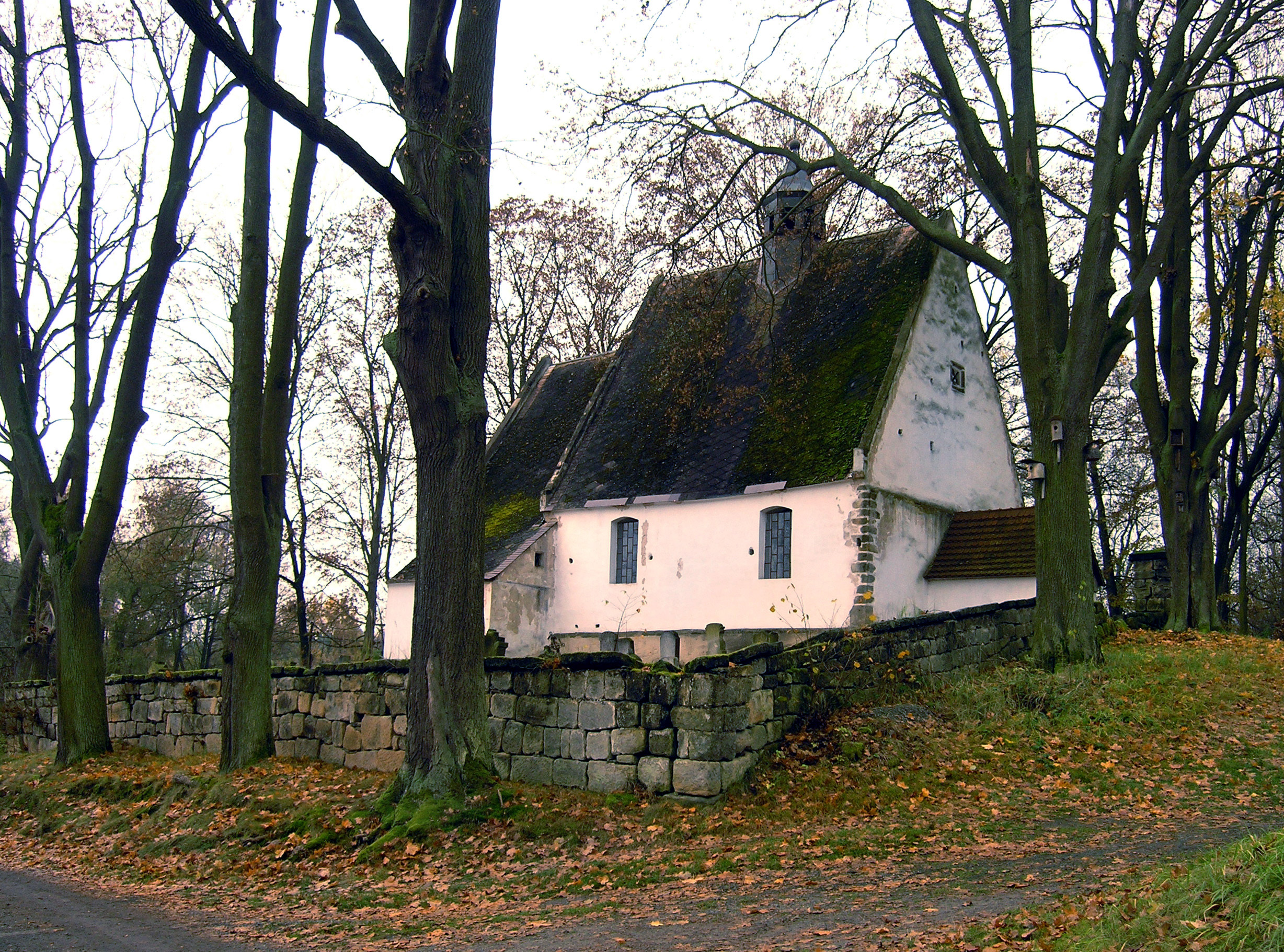 Church in Hostíkovice, part of Holany village, Czech Republic